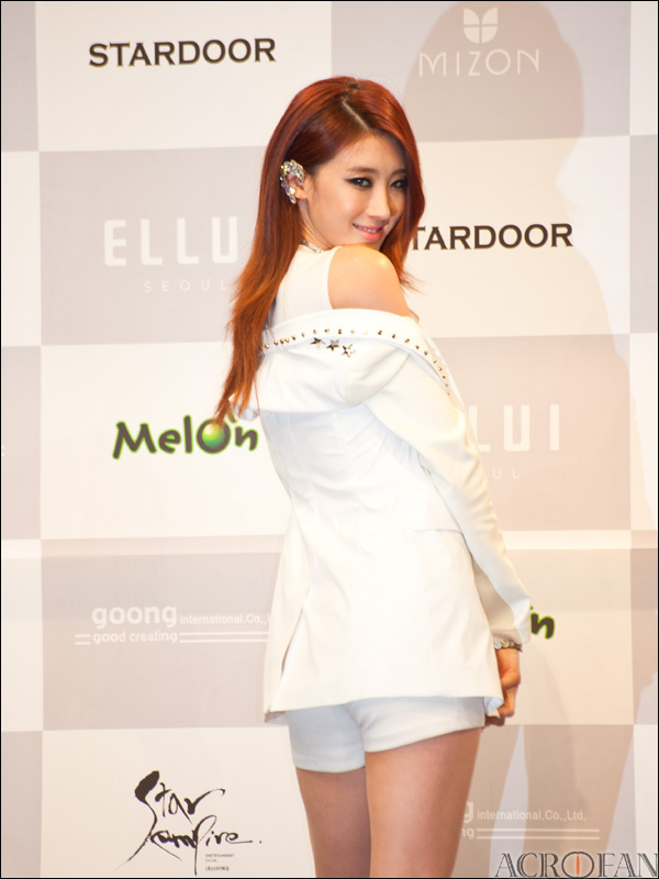 Hyuna at mini album WILD launching showcase event, in May 2013